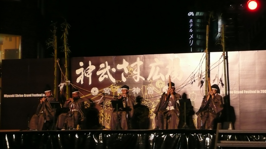 Miyazaki Shrine Grand Festival in 2008 - Gagaku.